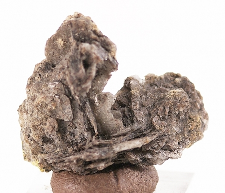 Newberyite Dimensions: 3 cm x 2.6 cm x 1.8 cm Locality: Skipton Caves (Skipton lava caves; Mt Widderin Caves), Mt. Widderin (Anderson's Hill), Skipton, Corangamite Shire, Victoria, Australia (Locality at ) Newberyite is a rare hydrated magnesium phosphate, found first in a series of lava caves deposited as bat guano in Australia, the Type Locality. This specimen features a sculptural aggregate of rather large platy crystals. A fine two-sided specimen for this rare material. Ex. Larry Krause specimen.